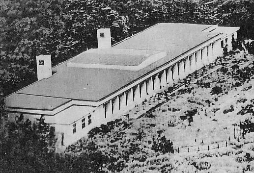 Obunko in 1950s